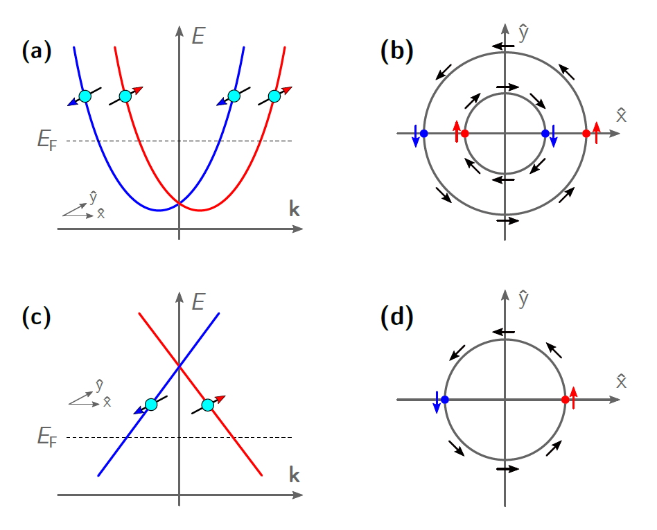 (a) and (c) represent the dispersion relations, respectively, produced by the Rashba effect and on the surface of topological insulators. (b) and (d) represent the Fermi countours in these two cases.